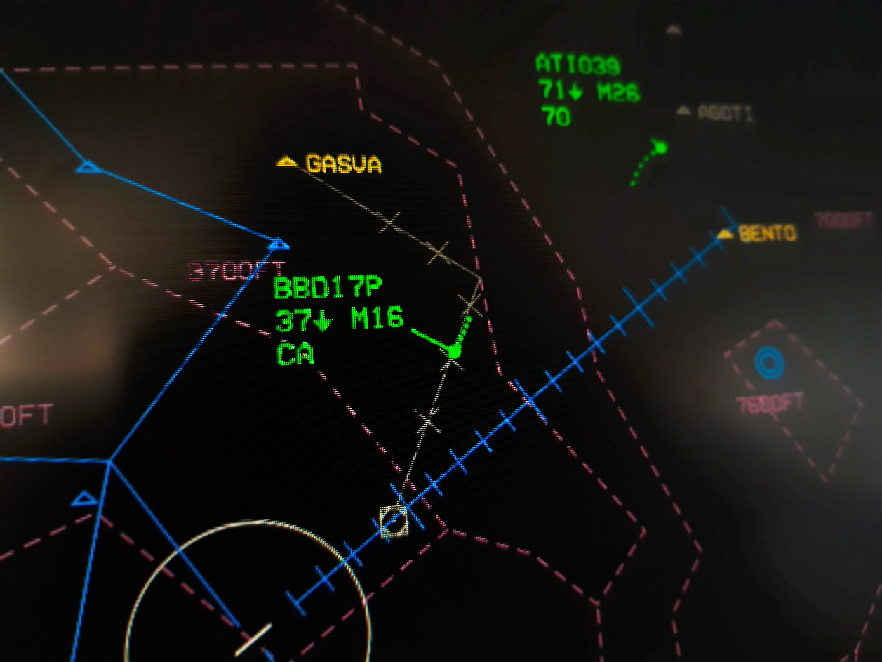 IVAO Air Traffic Control simulation on Naples, Italy. Approach Control.